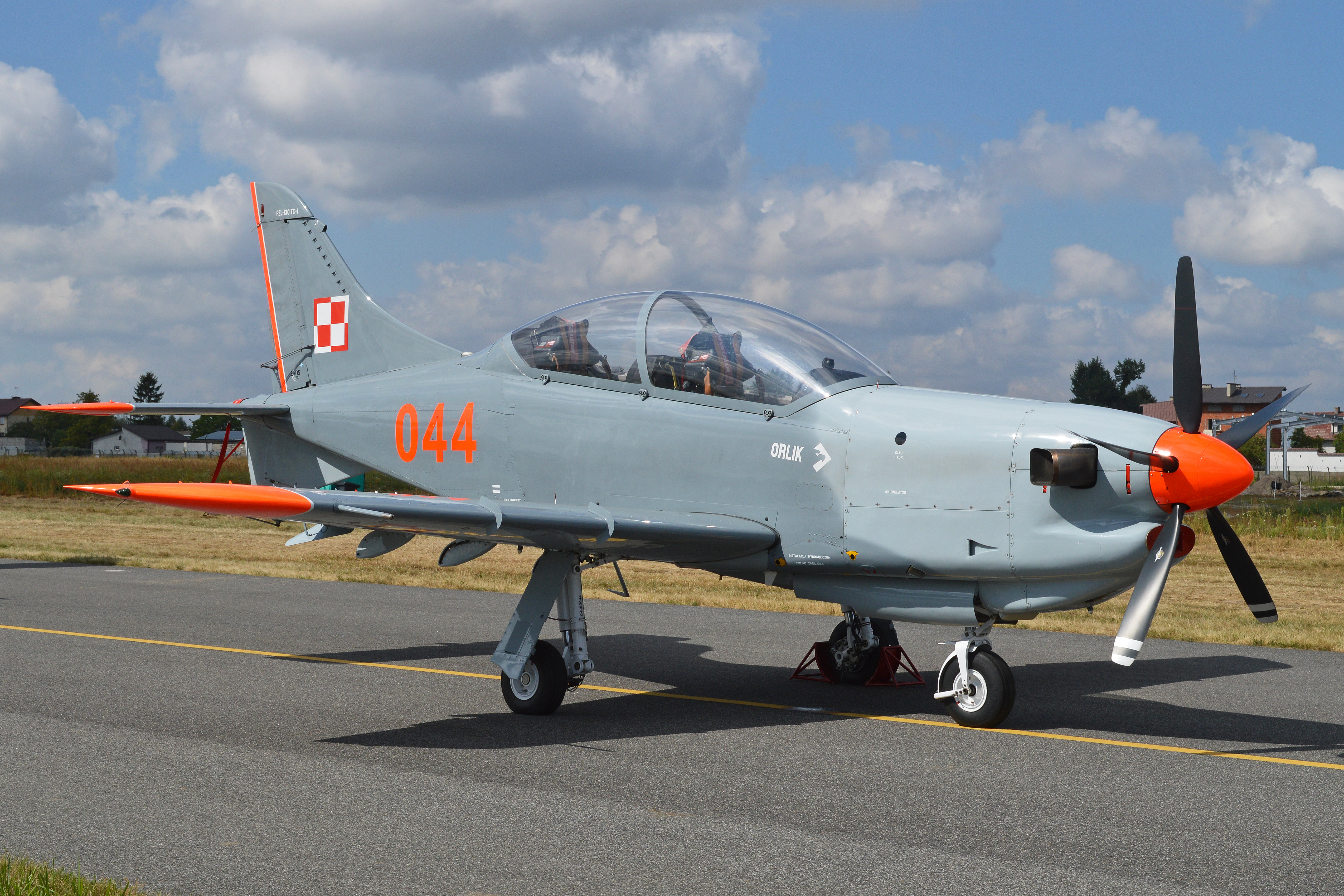 c/n 04980044. Operated by 42.BLSz Polish Air Force and based at Radom where it is seen on static display during the 2013 Airshow. 24-8-2013